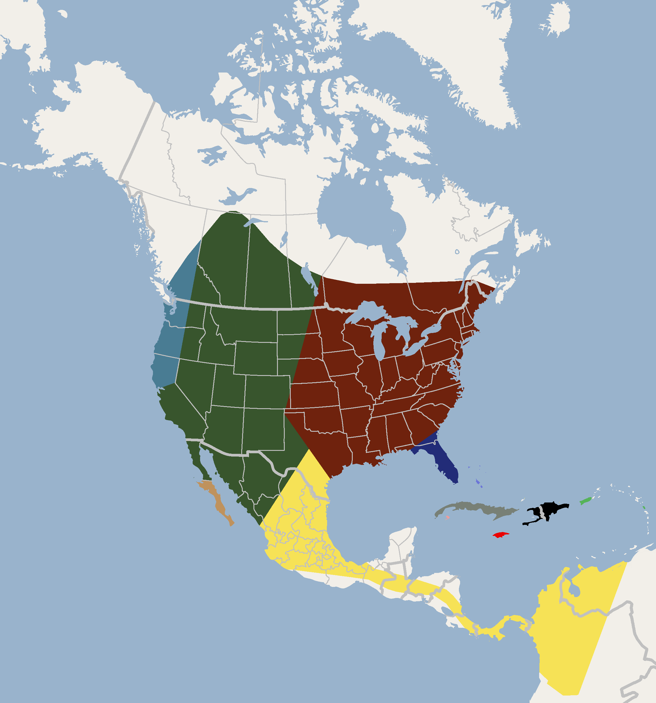 According to Kurta & Baker, 1990. For subspecies range description see related page on